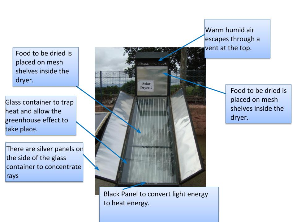 solar dryer with description